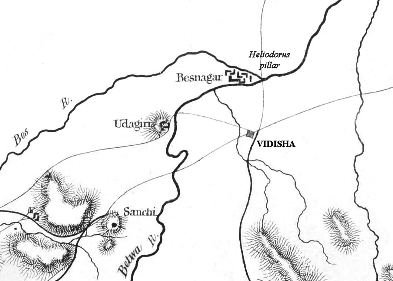 Map of Besnagar and surroundings